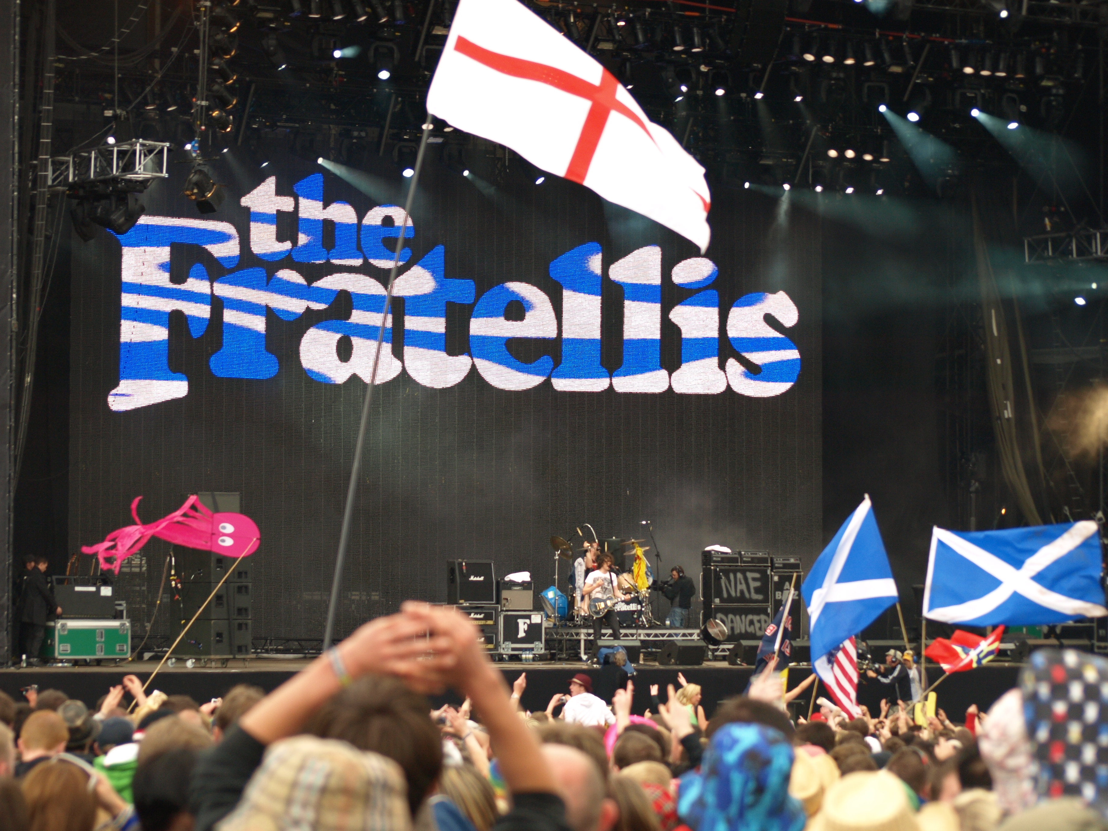 The Fratellis on stage